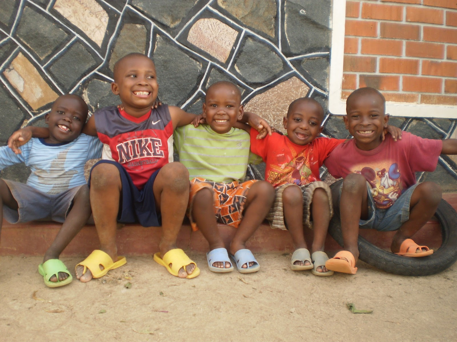 Rafiki Children's Home